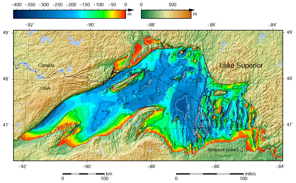 Lake Superior bathymetric shaded relief map contoured with interval 25 m (100 m with thicker lines). The deepest point, roughly off its southeastern shore, is marked with "×". For land, the vertical datum is sea level; for bathymetry, low water datum of the lake. According to NGDC information, Lake Superior data this map is based on are incomplete. The map was created using the Generic Mapping Tools, GMT, version 5.1.1.